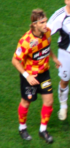 Julien Sablé, football player (RC Lens)